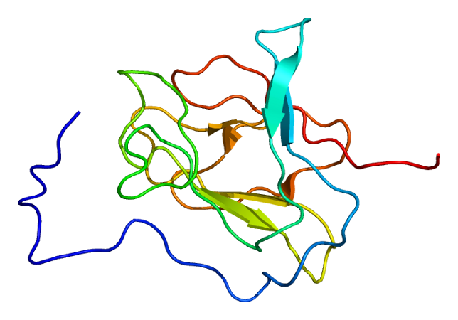 Structure of the PPP1R8 protein. Based on PyMOL rendering of PDB 2jpe.